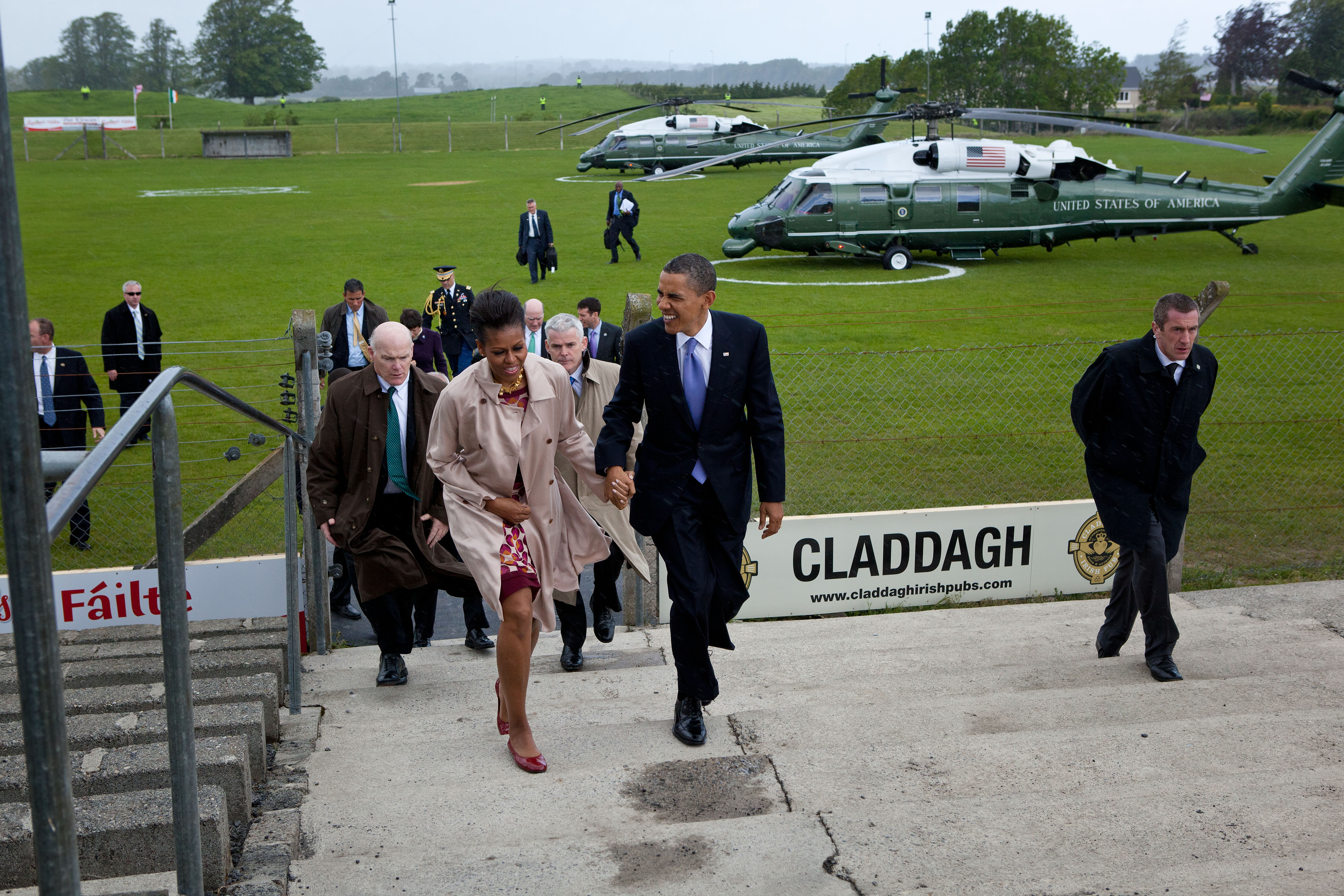 U.S. President Barack Obama and First Lady Michelle Obama arrive at Saint Flannan's Park hurling pitch in Moneygall, Ireland, May 23, 2011.